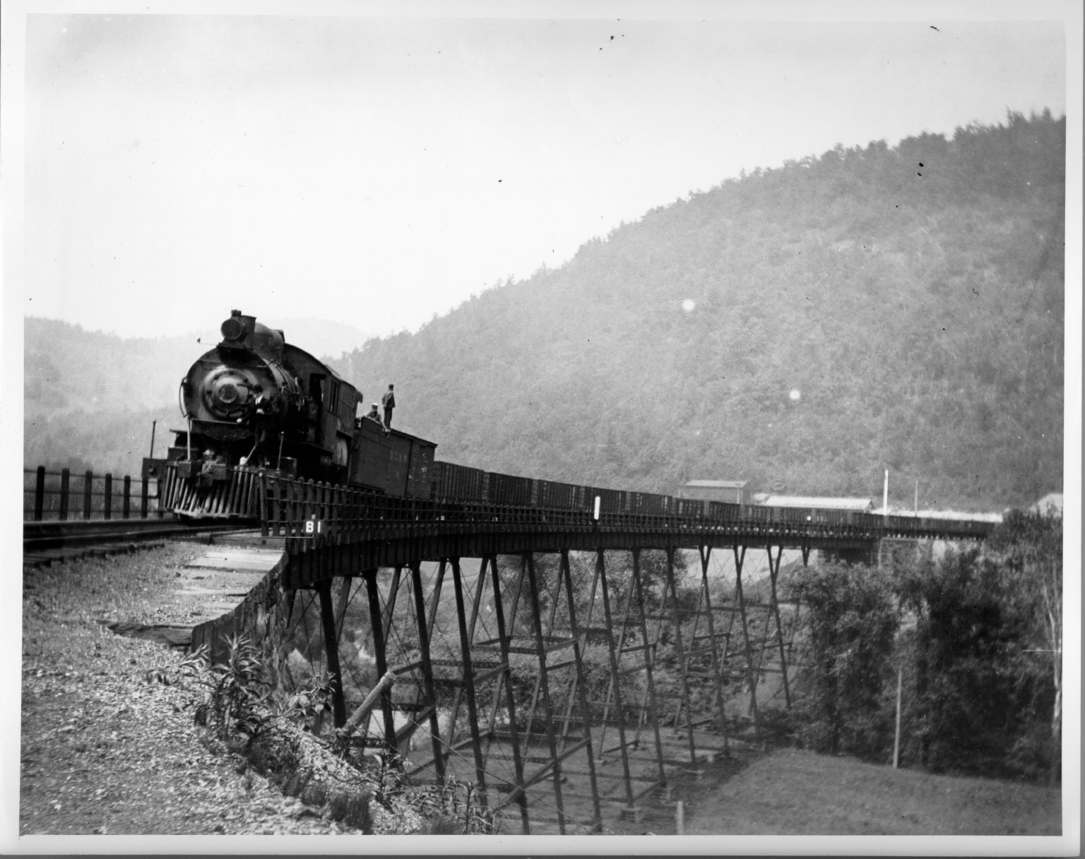 Collection: De Forest Douglas Diver Railroad Photographs, ca. 1870 - 1948, Cornell University Library Title: O&W Engine #201 - Mother Hubbard #2509 Place: New York (State) Medium: Gelatin silver print Notes: Locale: Cadosia Trestle Provenance: Diver, De Forest Douglas, 1878-1958, Collector Finding Aid: Location: 1948/Box 1/Folder 4 RMC ID: RMC2004_1004 Persistent URI: There are no known U.S. copyright restrictions on this image. The digital file is owned by the Cornell University Library which is making it freely available with the request that, when possible, the Library be credited as its source. We had some help with the geocoding from